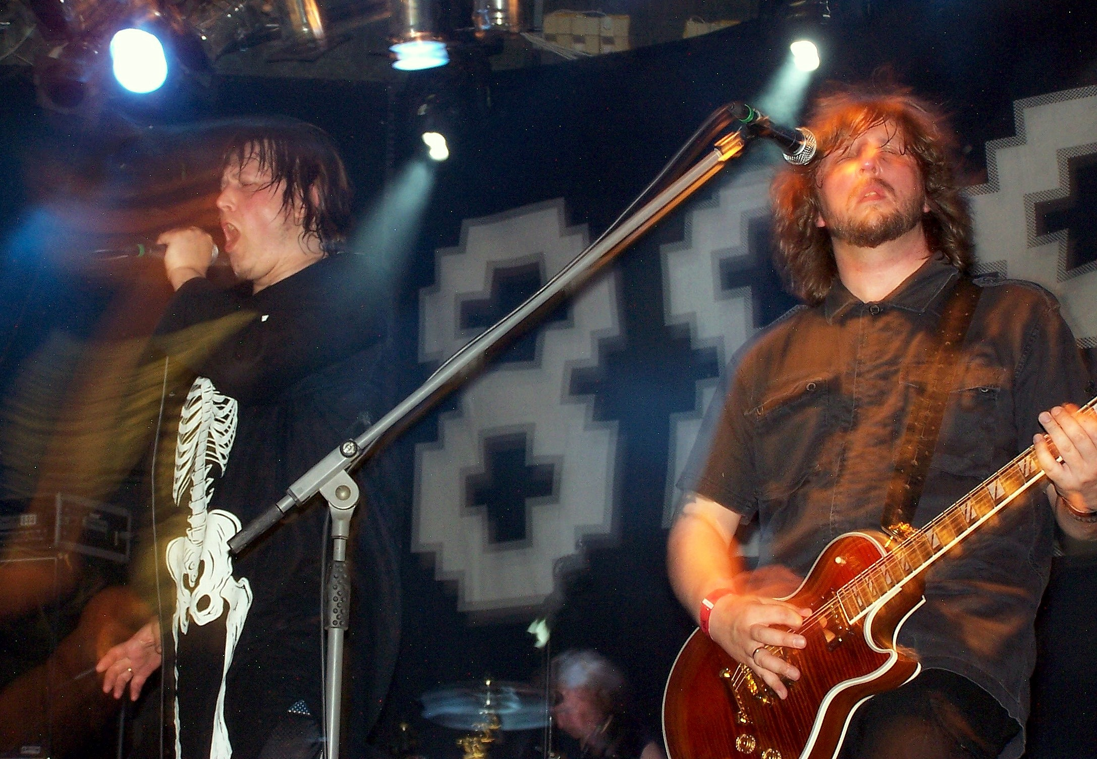 Dariusz Malejonek & Robert Friedrich during the concert of 2Tm2,3 in Cracow, 2007 May 14